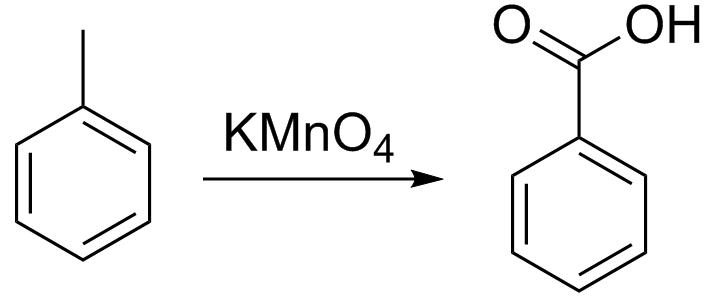 Laboratory synthesis of benzoic acid